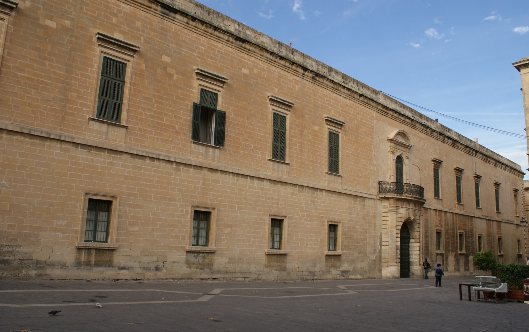 Valletta, Grandmaster's Palace